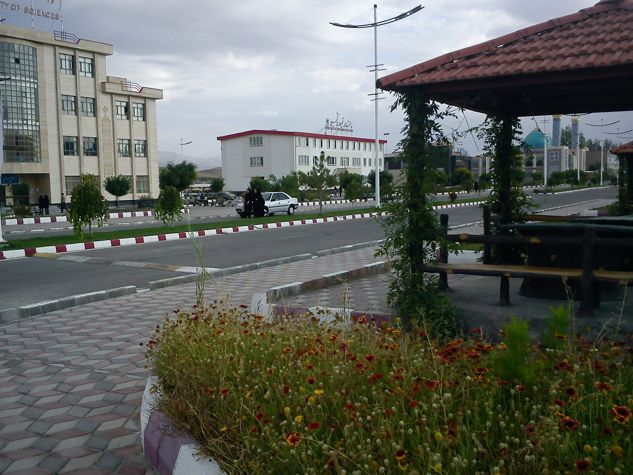 Azad University of Ahar